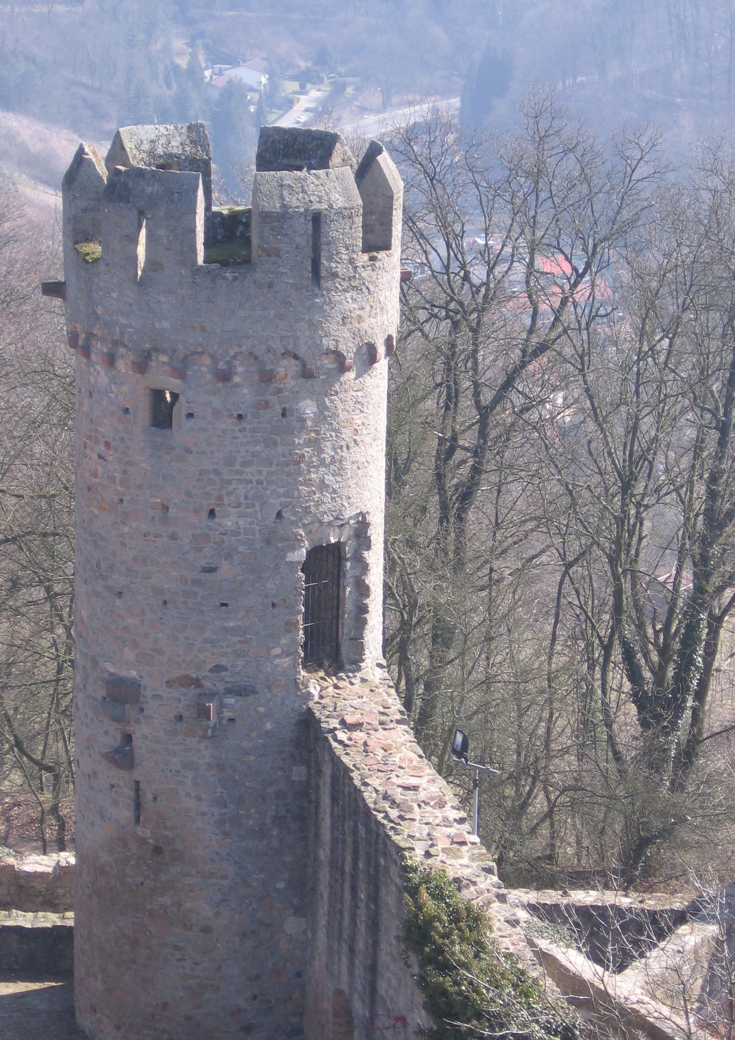 so-called South-East Tower of the Starkenburg.